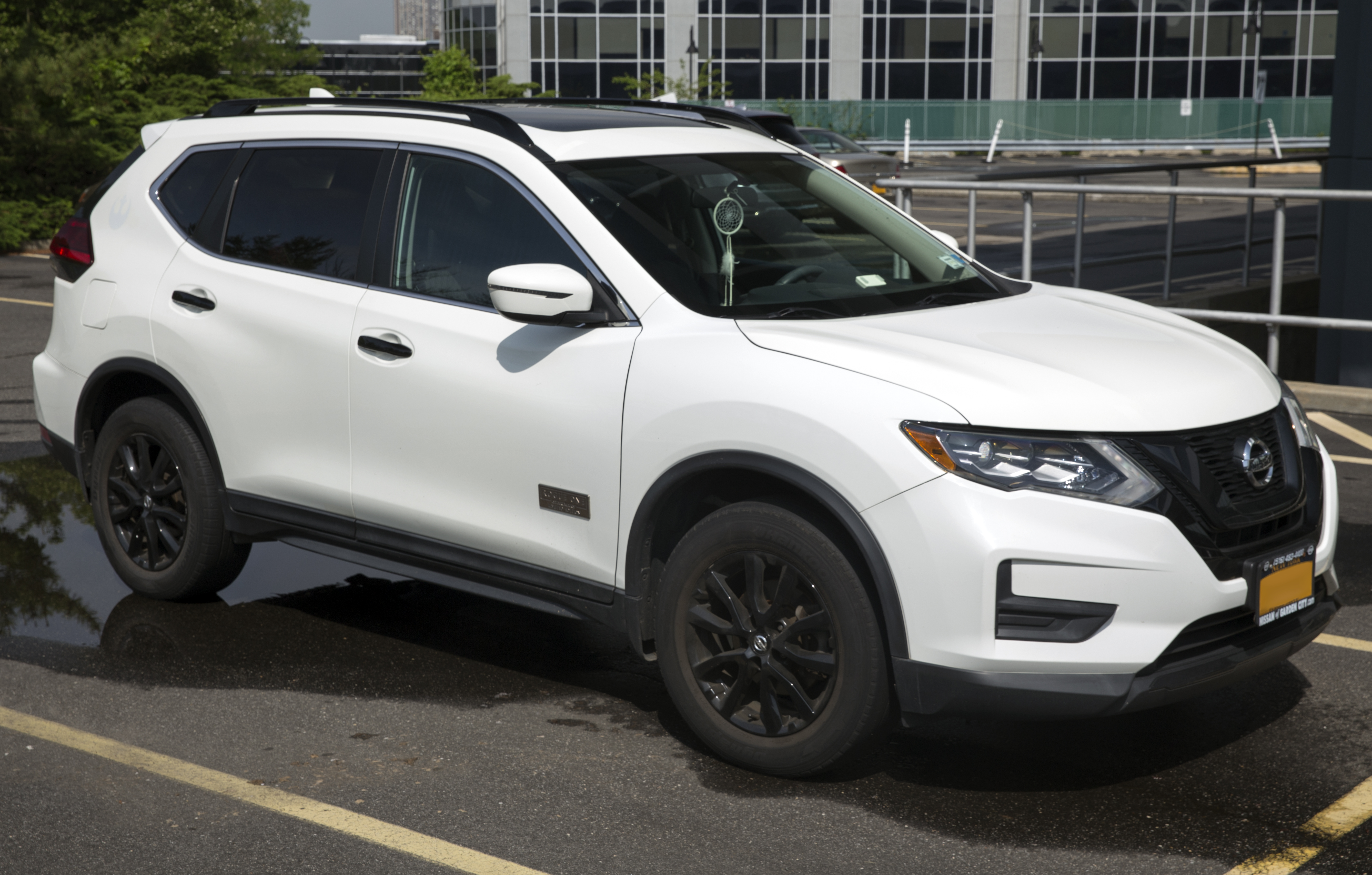 2017 Nissan Rogue: Rogue One Star Wars Limited Edition in Glacier White, North New Hyde Park, NY. This has got to be the laziest, most cynical special edition ever; I had to look online to check if it was real or just some Star Wars-fan's attempt to make their Nissan Rogue exciting. SV trim, some blacked out parts, some stickers and two badges. No wonder Nissan is going under.